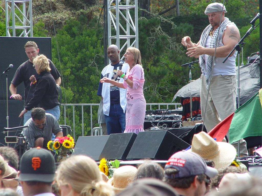 Code Pink activist Medea Benjamin.